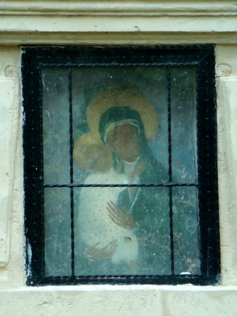 Virgin Mary with Baby Jesus, Tapolca, Hungary